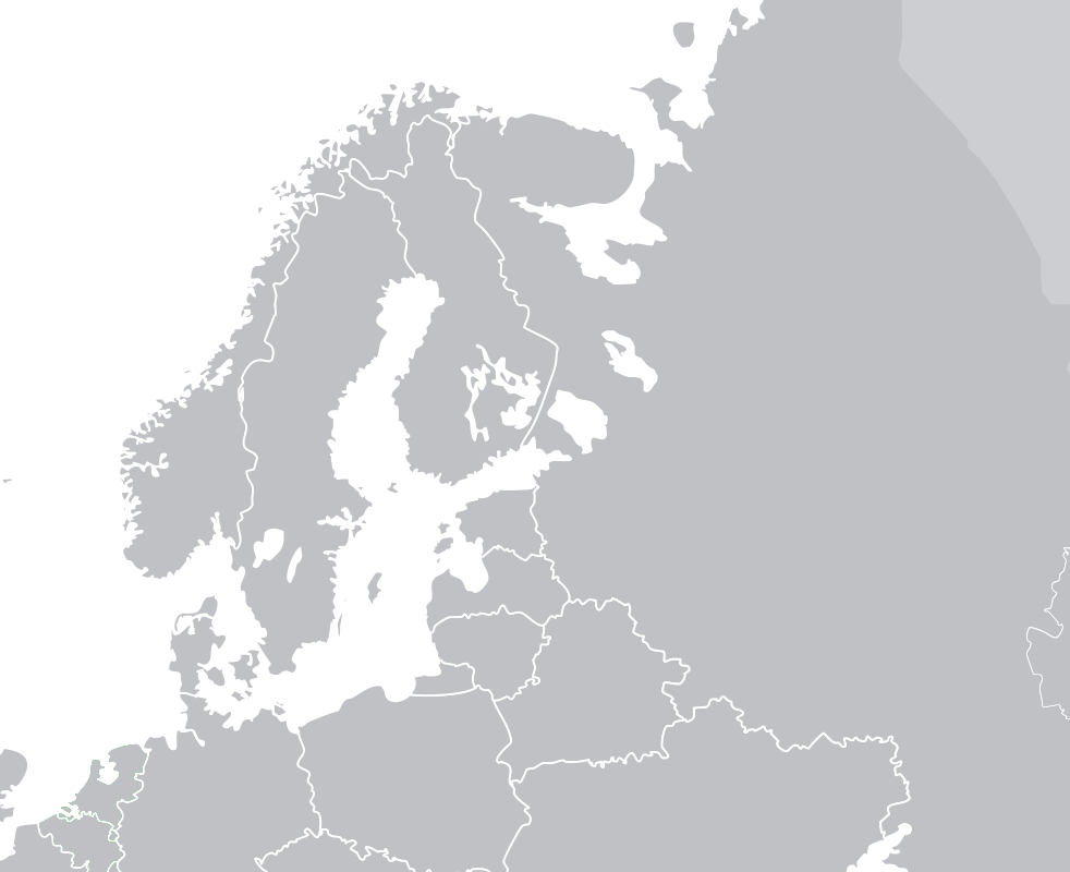 Map of Northern Europe which centers on bottom of Baltic Sea